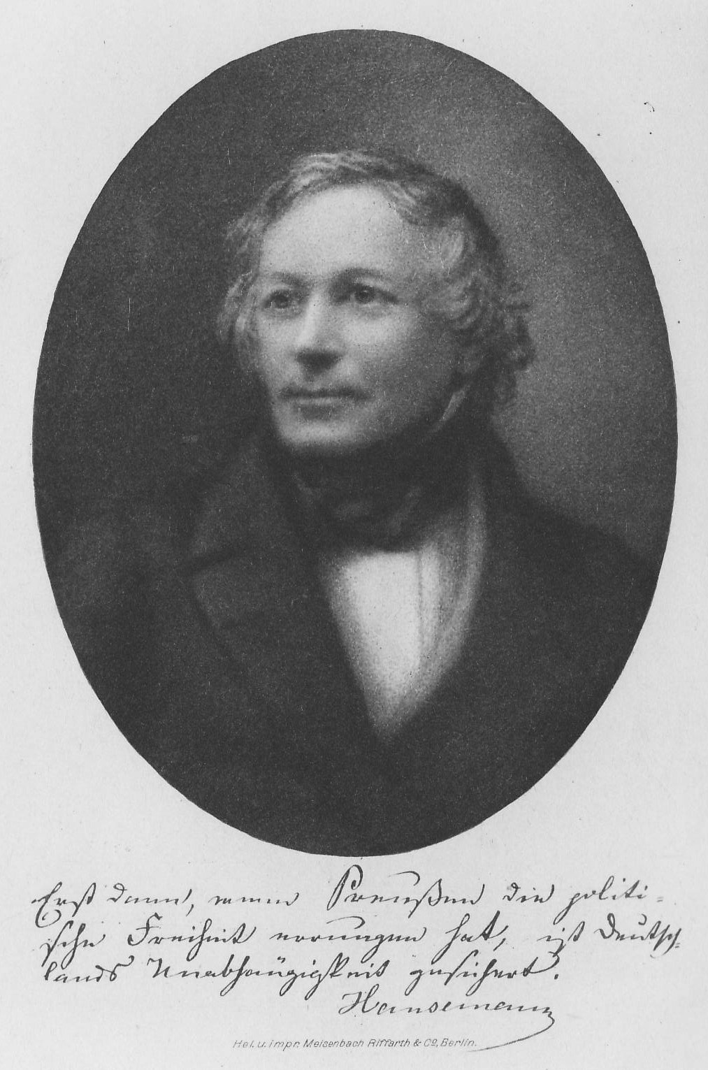 David Hansemann, ca. 40 years old